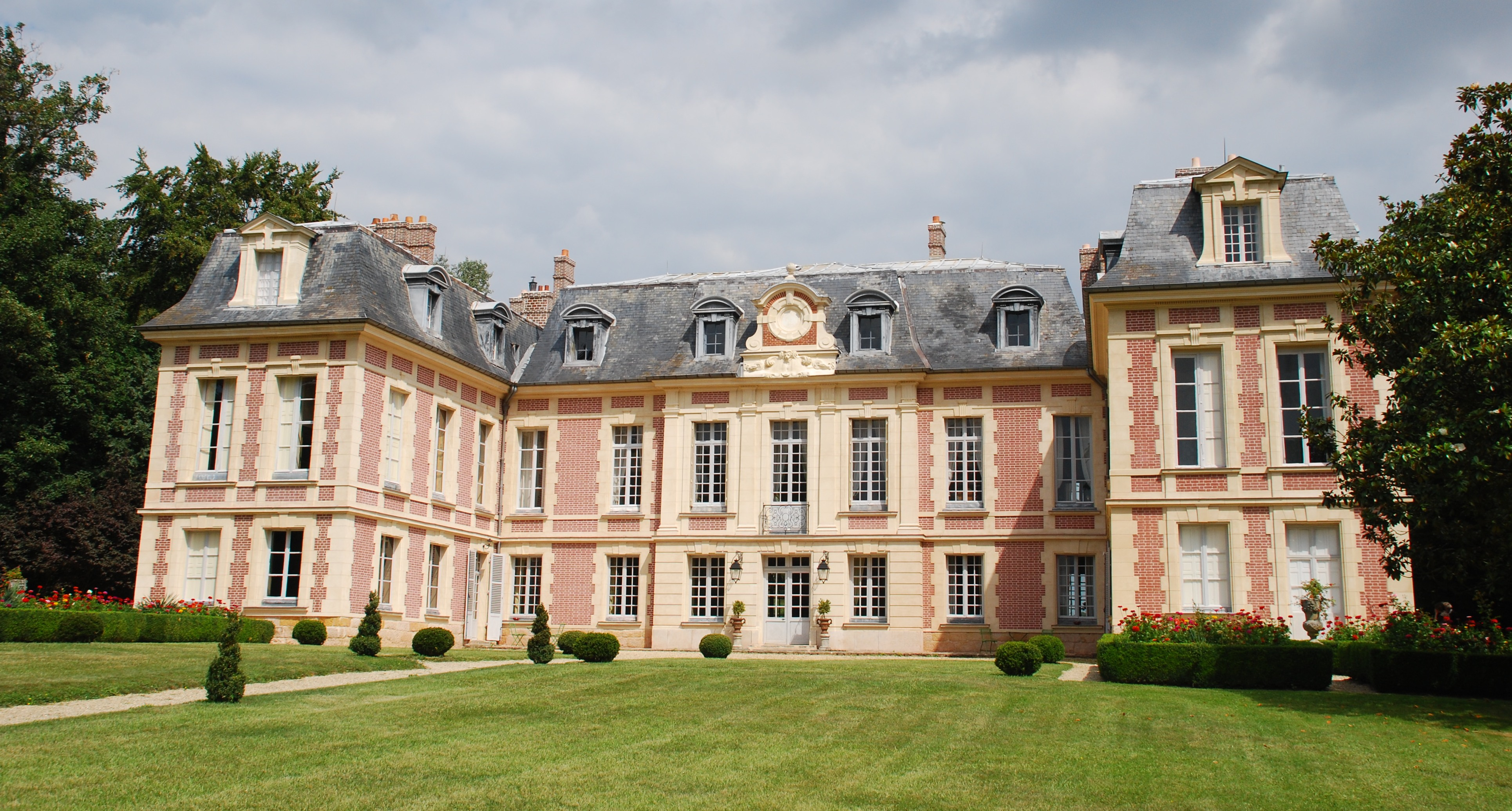 Castle of Villiers-le-Bâcle, Villiers-le-Bâcle, Essonne, France.